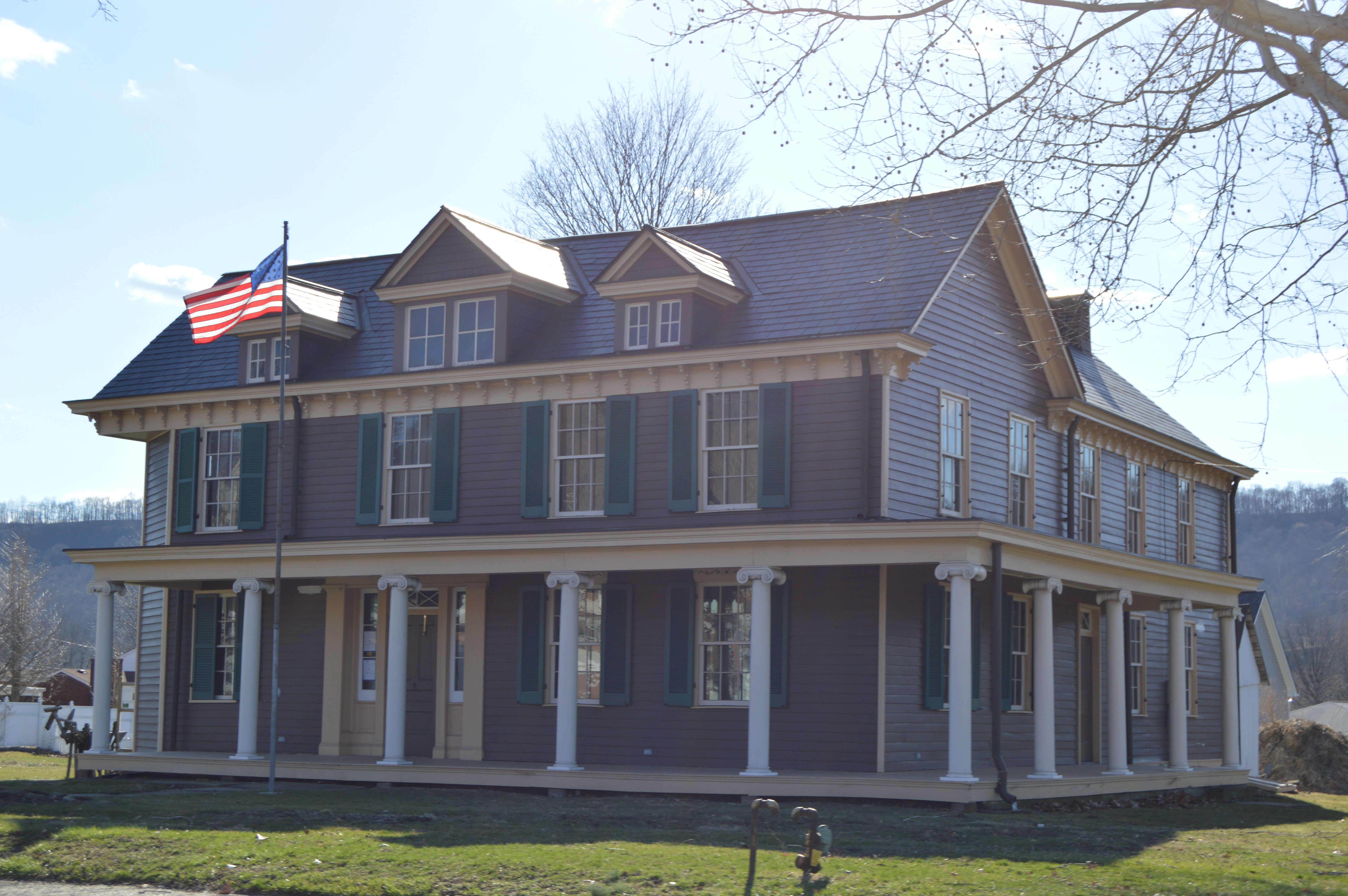 Front and southern side of the Bennett Cockayne House, located at 1111 Wheeling Avenue (U.S. Route 250/West Virginia Route 2) in Glen Dale, West Virginia, United States. Built in 1850, it is listed on the National Register of Historic Places.